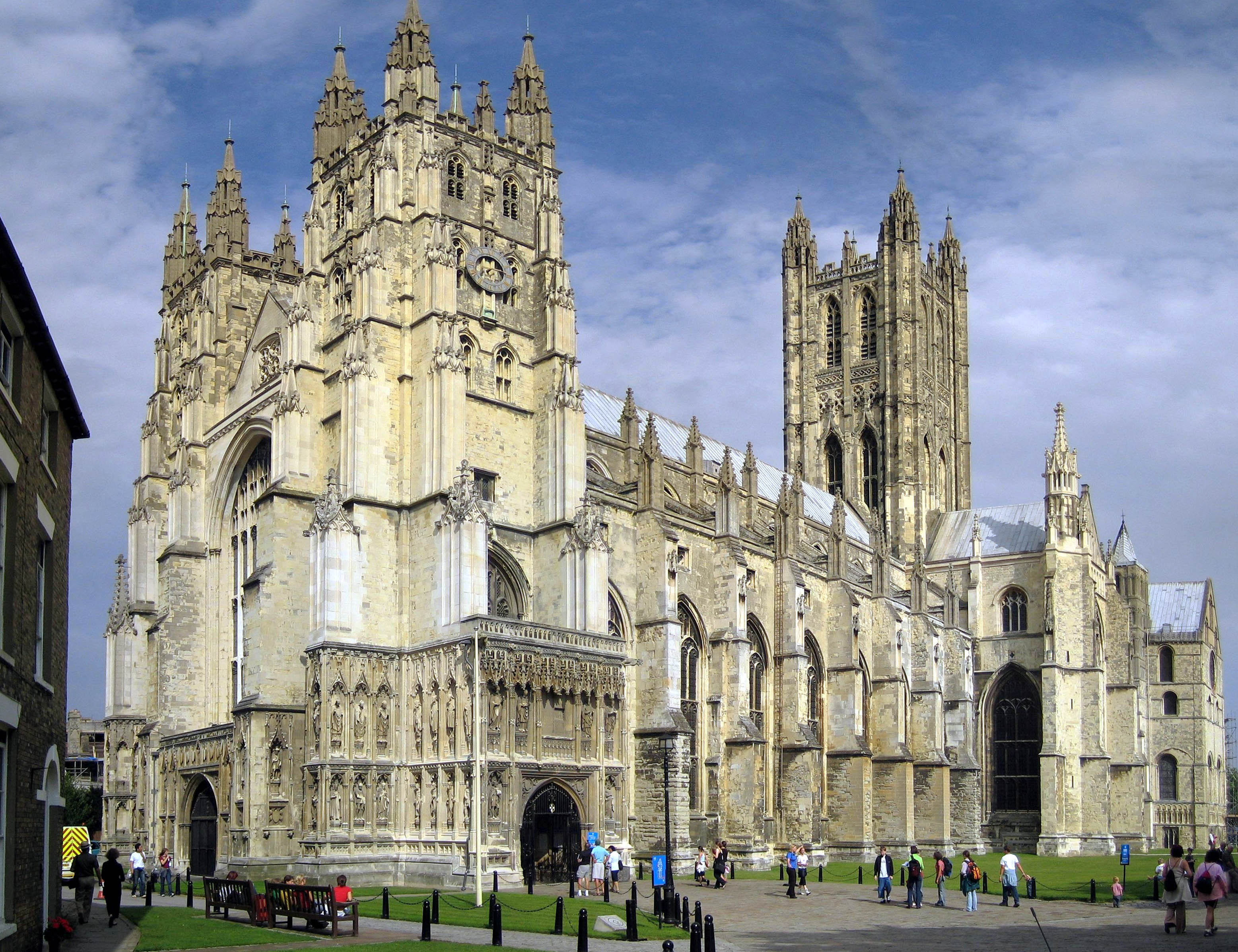 Canterbury Cathedral: West Front, Nave and Central Tower. Seen from south. Image assembled from 4 photos.